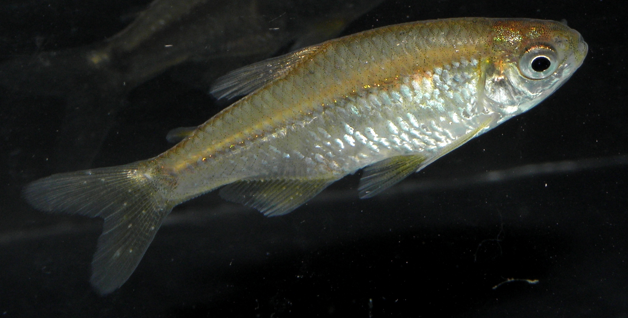 Uruguay tetra (Cheirodon interruptus).